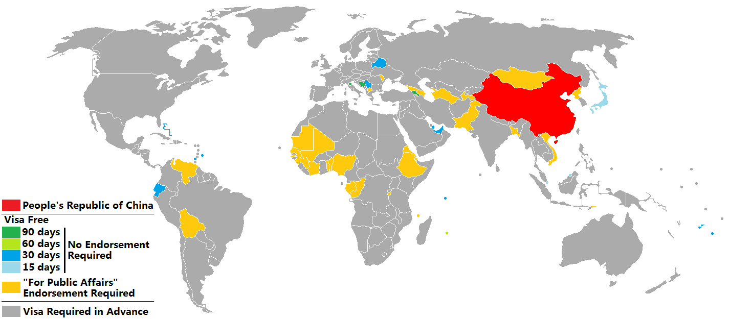 Visa policy of the People's Republic of China for type P (ordinary) passport holders including endorsed type P (ordinary) passports People's Republic of China Visa-free - 90 days Visa-free - 60 days Visa-free - 30 days Visa-free - 15 days Visa-free with "for public affairs" endorsement in passport Visa required